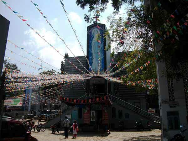 The MaryMata church in Gunadala